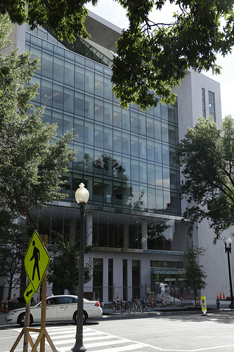 Center for Strategic International Studies office in Washington, D.C.